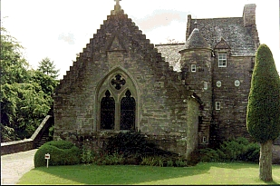 Stobhall Castle and chapel. In the middle of the 14th century Sir John Drummond married the last of the Montfichets who owned the lands of Cargill and Stobhall. They moved from about three miles away to Stobhall where the Chapel may already have been standing. Recently the plain plaster ceiling of the passage was taken down and underneath were found the painted beams c. 1578. .